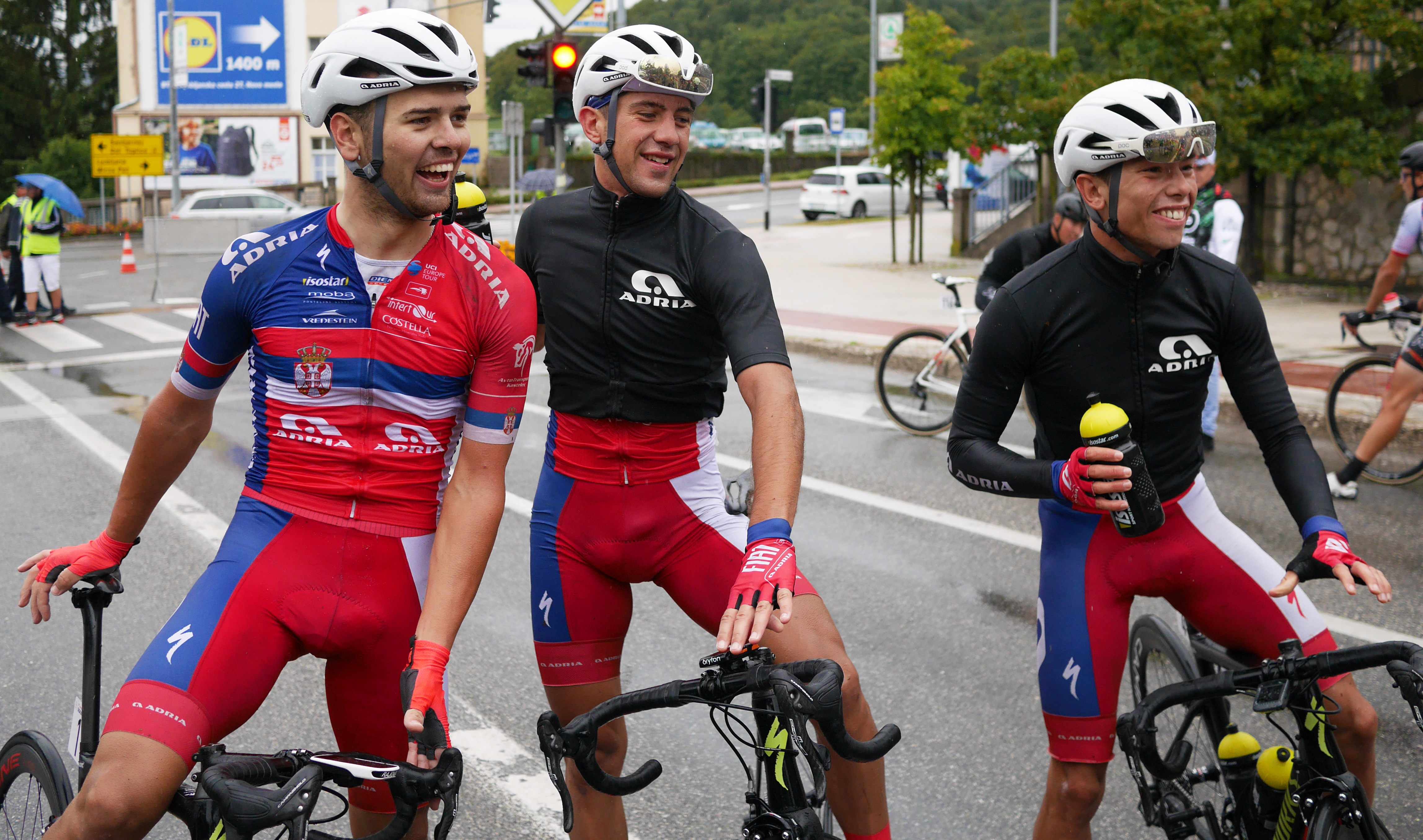 Team Adria Mobil in Croatia-Slovenia bicycle race celebrating winning of Dušan Rajović